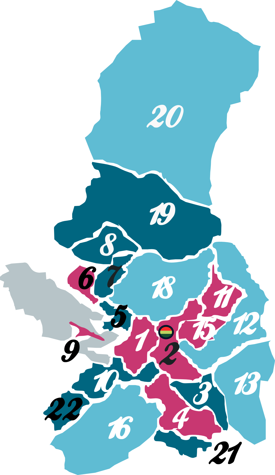 departement map